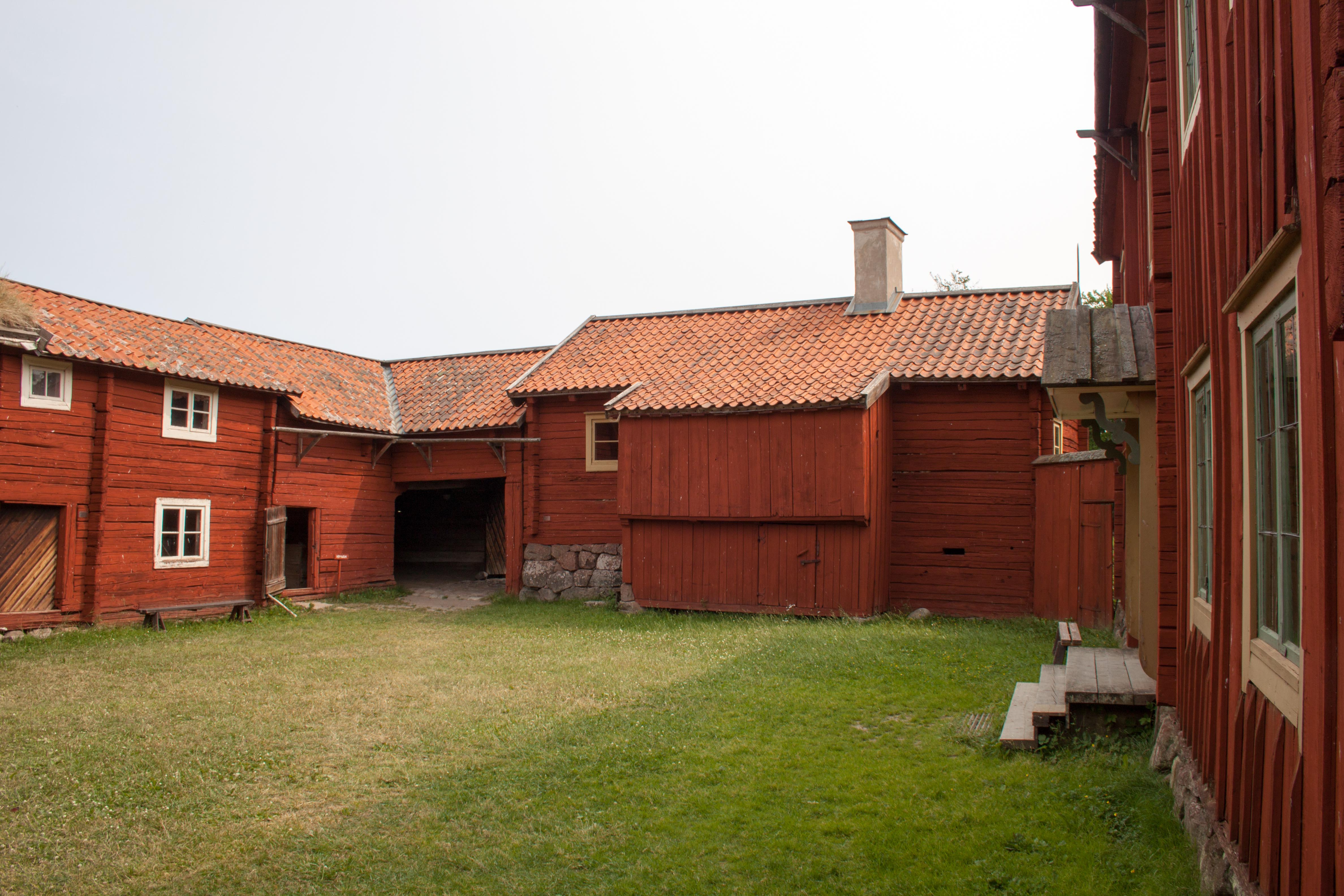 Disagården, close to Gamla Uppsala, Sweden